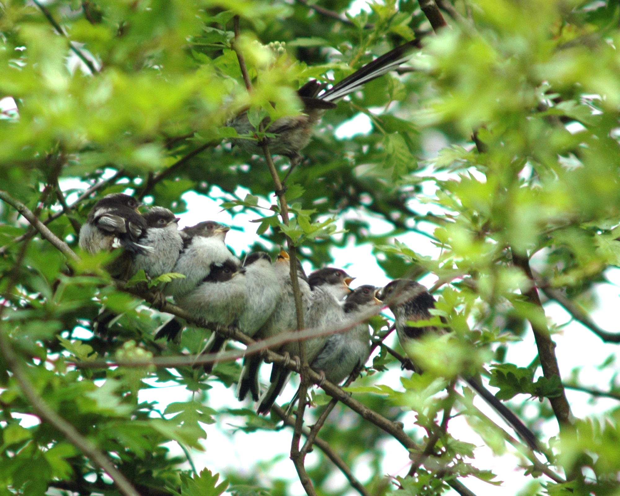 Pair of long-tailed tits feeding brood of eight fledglings. Walkden, Greater Manchester, England. Ordnance Survey grid reference SD733026